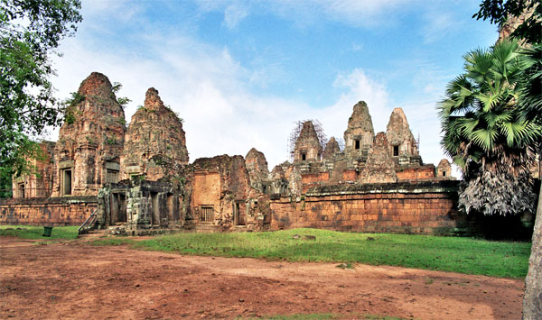 Pre Rup Temple. Angkor. Cambodia